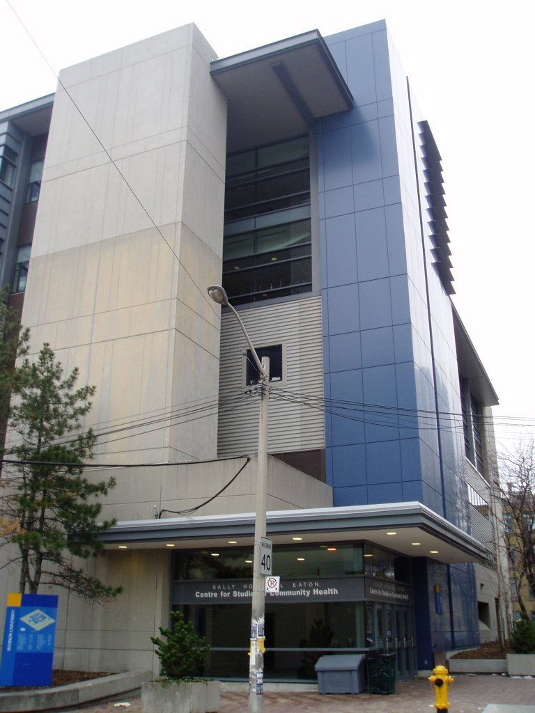 Sally Horsfall Eaton Centre